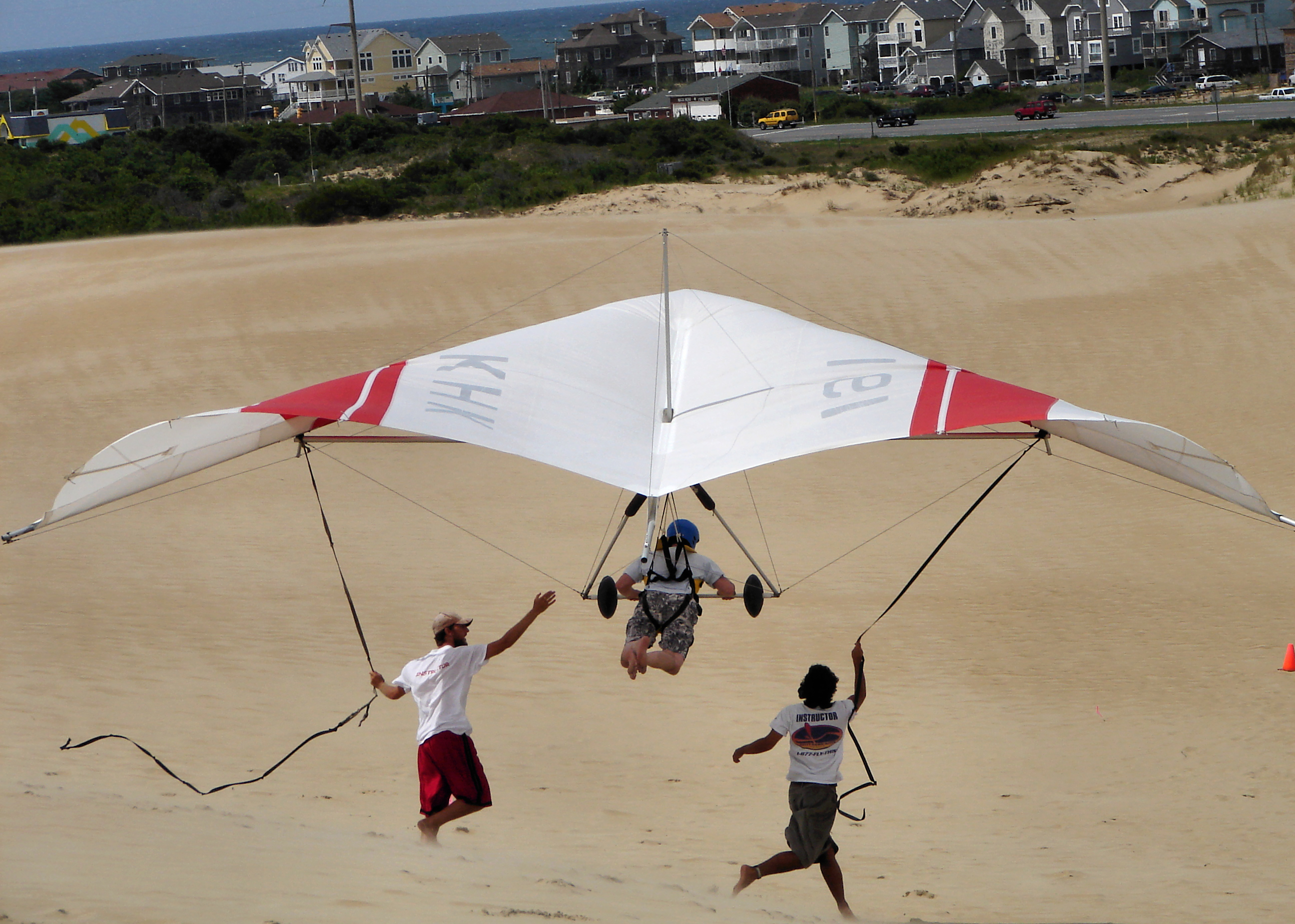 Learning to hang glide over sand dunes.